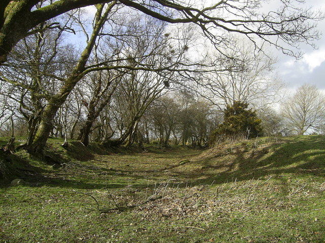 Castell Goetre Castell Goetre (Possibly from Goed-Tref or 'settlement in the wood') is an Iron Age hill fort on the ridgeway between the Teifi and Dulas valleys. It is located in the northwest of this square and extends into SN6051 to the north. The fort, now populated by sheep and home to a small reservoir, consists of an oval banked and ditched enclosure with a cross-bank through the centre, possibly part of an earlier phase. From ground level it appears much eroded but in places is still well defined, as here in the western enclosure ditch. For more information please